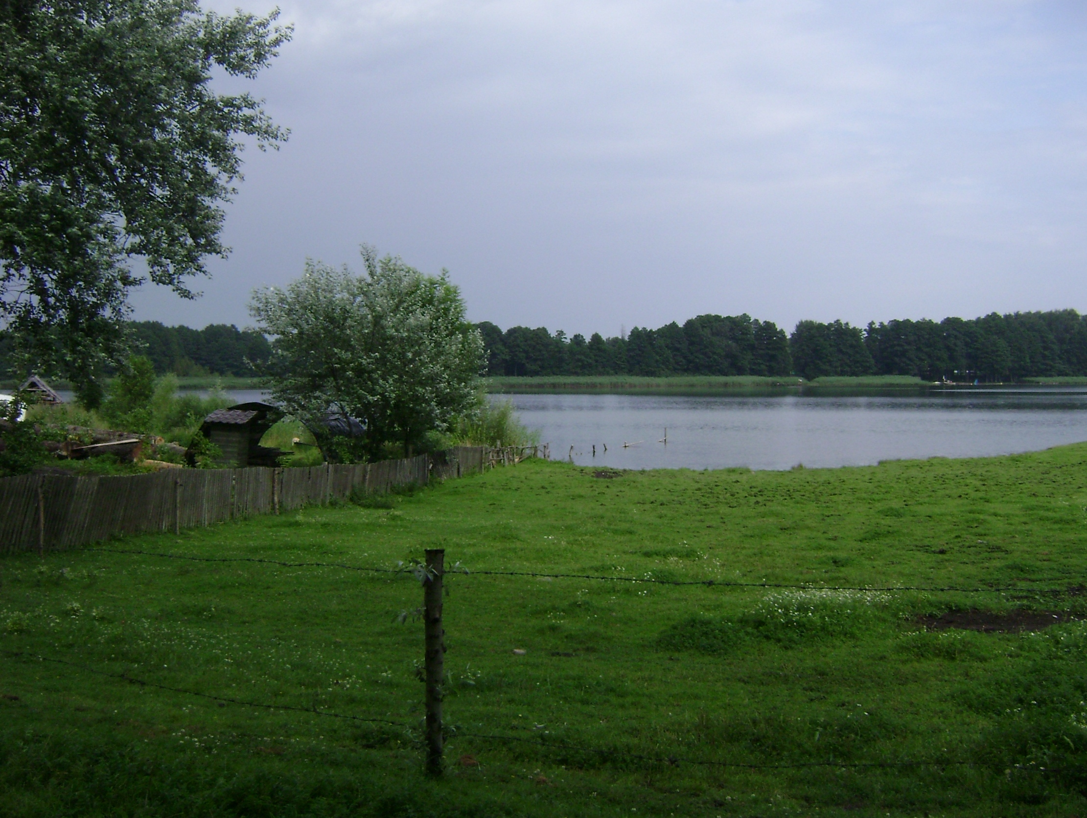 Poland. Gmina Jedwabno. Brajnickie Lake